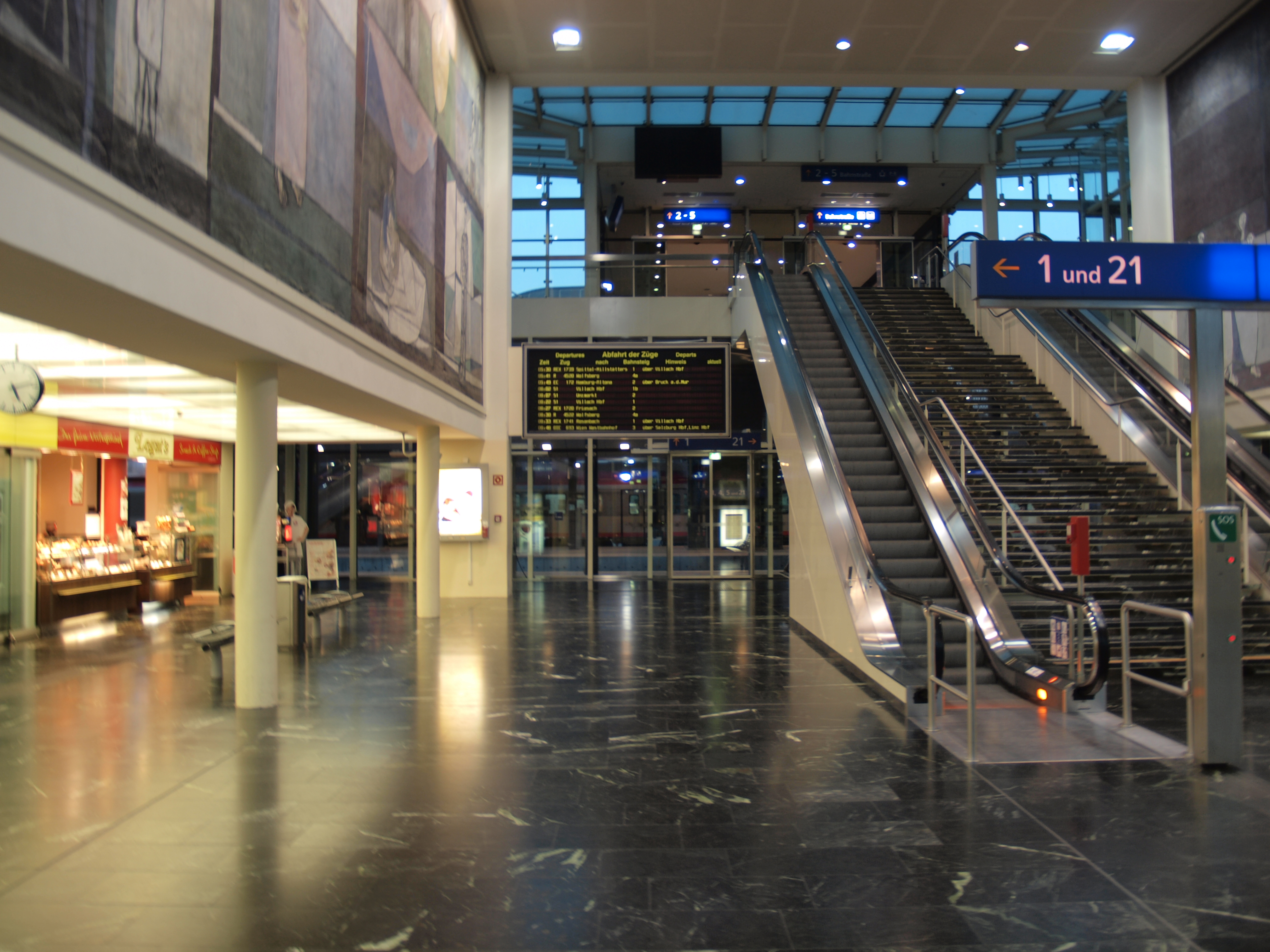 Inside view of Klagenfurt Hauptbahnhof, at about fifteen past five in the morning (local time).